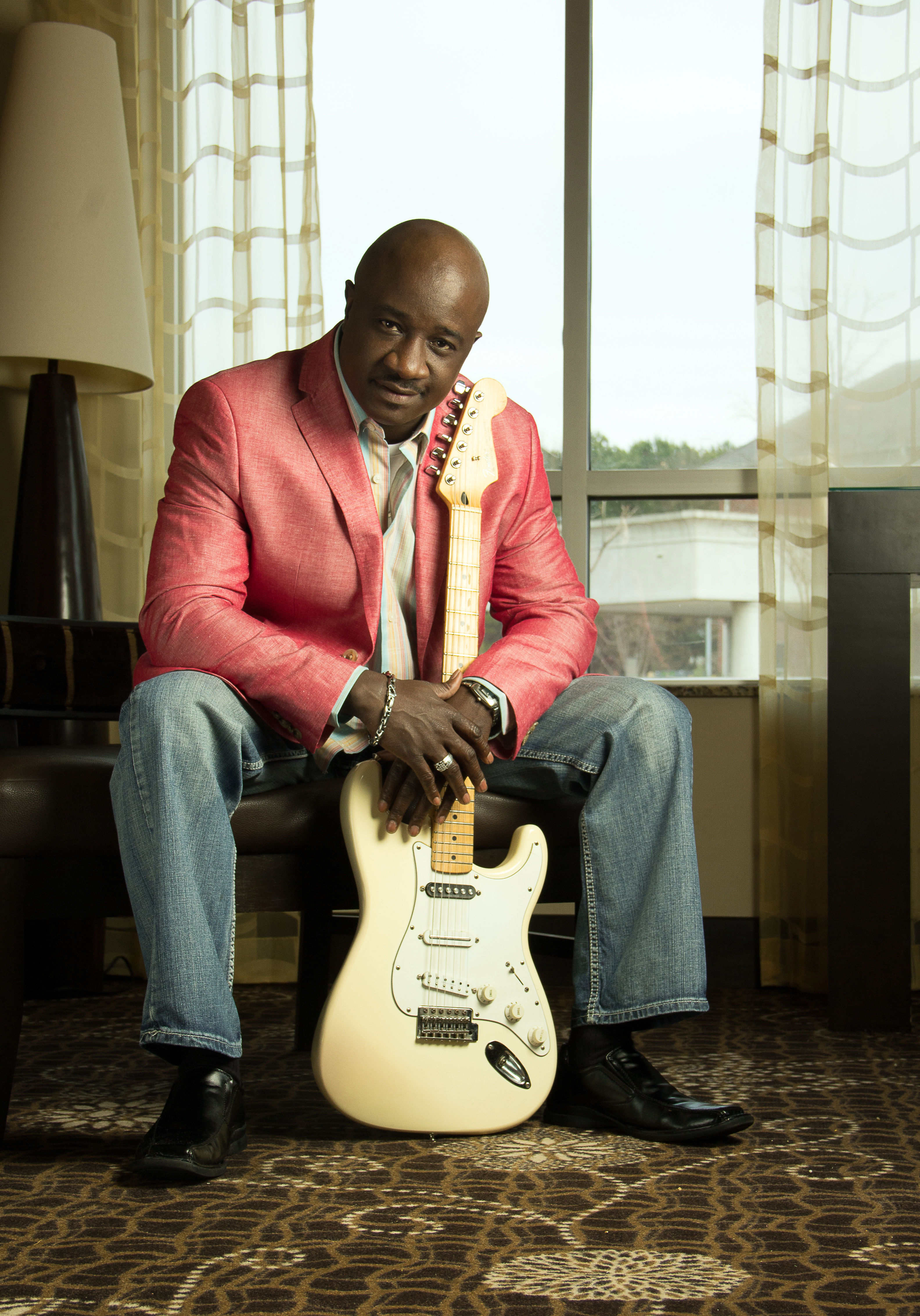 Photoshoot